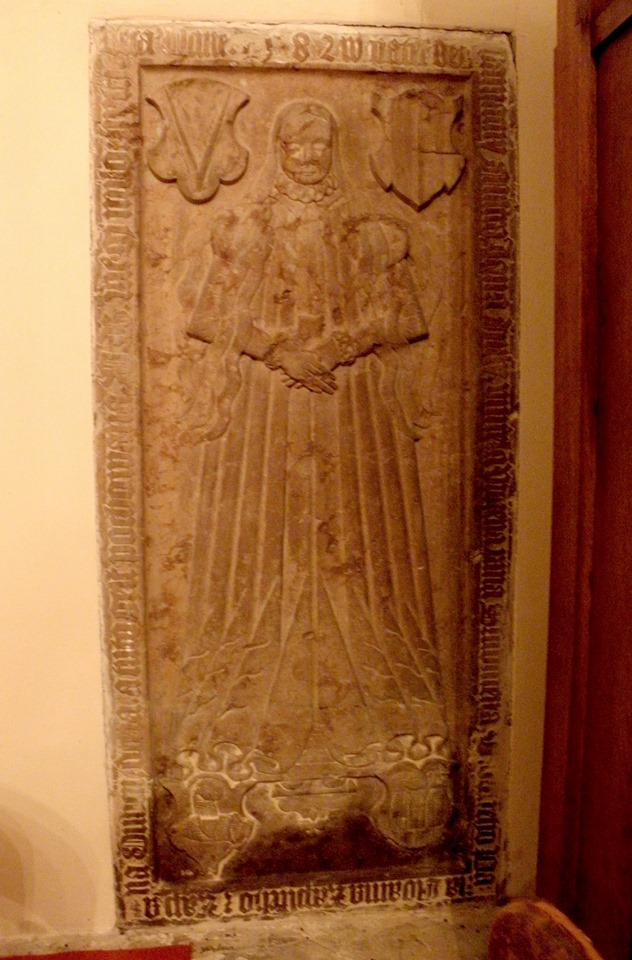 Náhrobek Salomeny Zapské